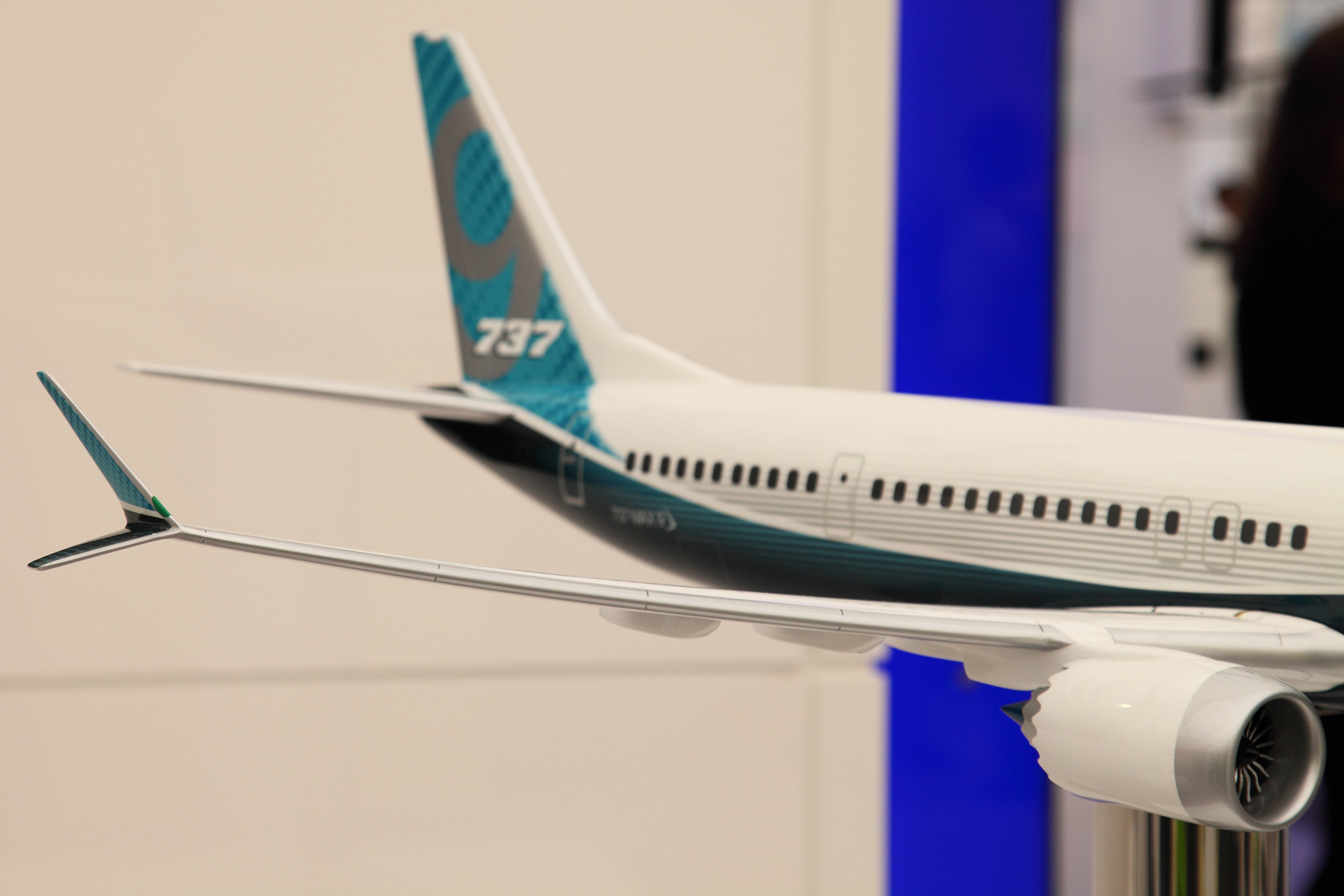 ILA Berlin Air Show 2012 ; Boeing 737-9 MAX (scale 1/40)